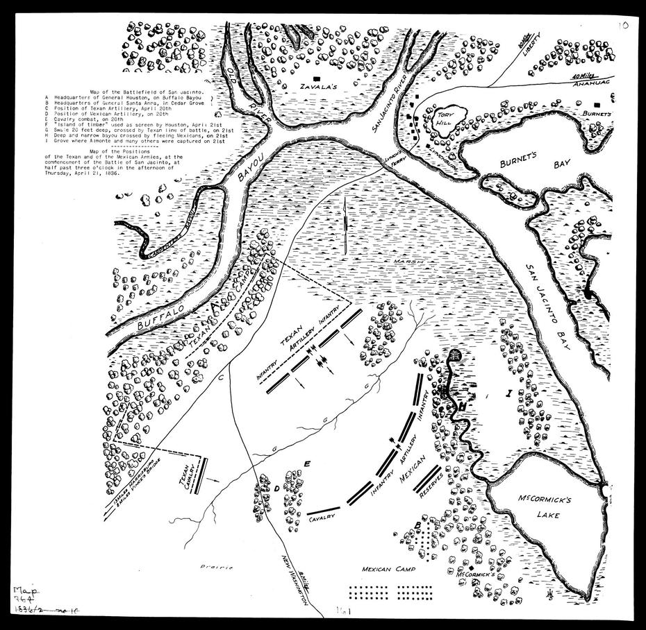 This is the movement of troops at the Battle of San Jacinto, the last battle of the Texas Revolution, on April 21, 1836.